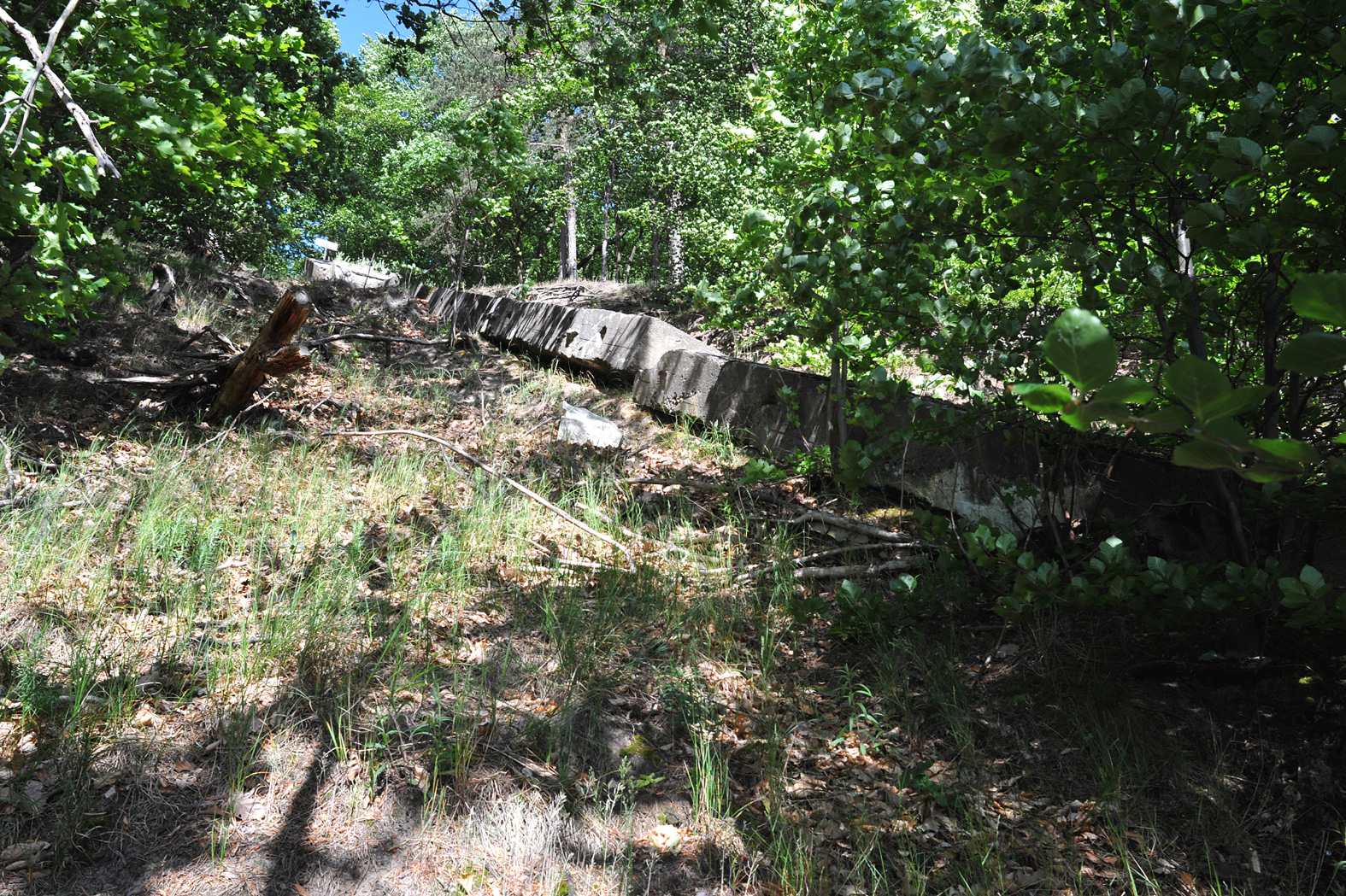 V3 test area Zalesie near Międzyzdroje, 60 cm concrete slab of multi-charge principle cannon emplacement south; Farther Pomerania, Poland.